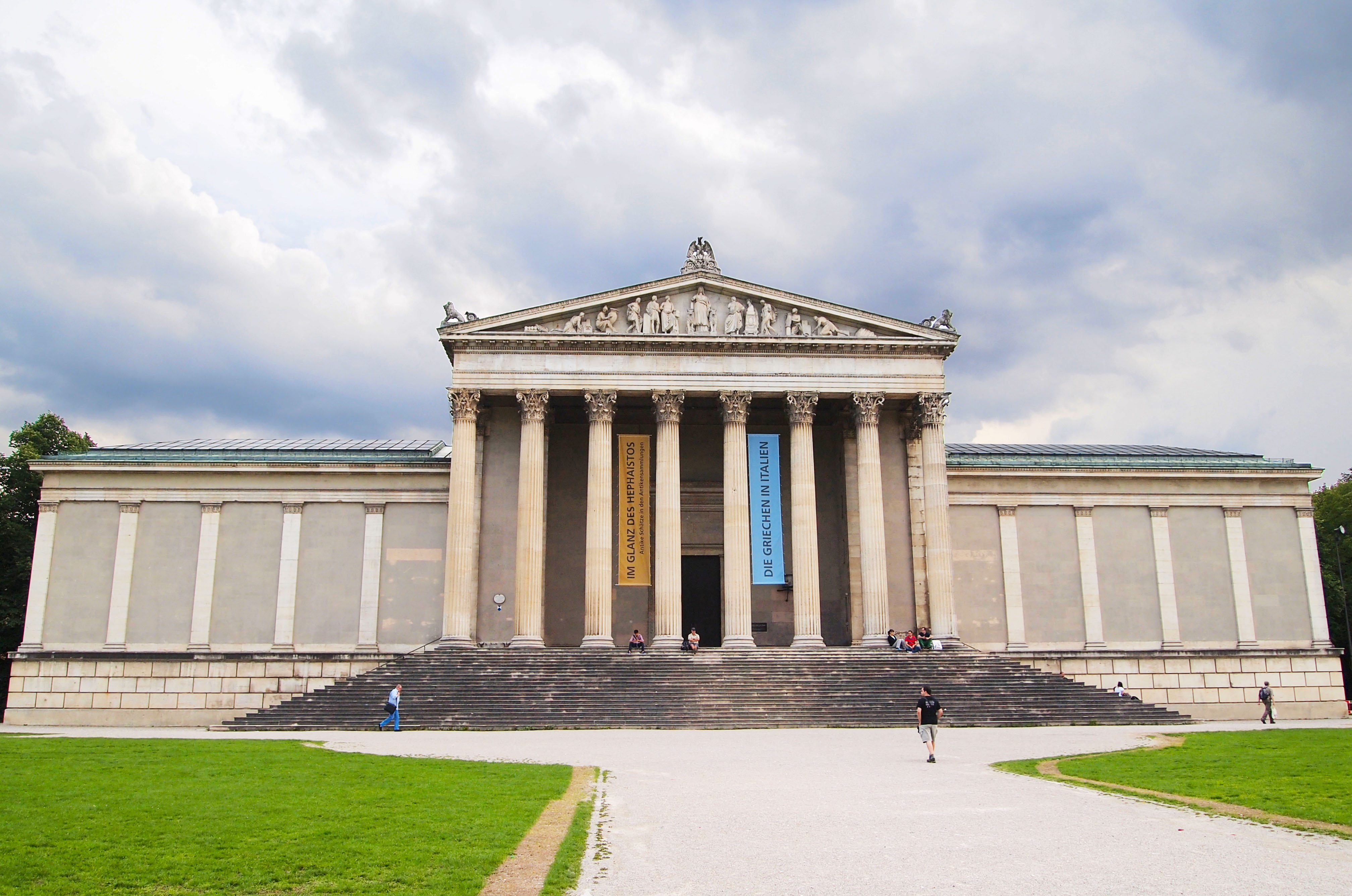 The building Staatliche Antikensammlungen on the square Königsplatz, Munich.This photograph was taken with an Olympus E-PL1